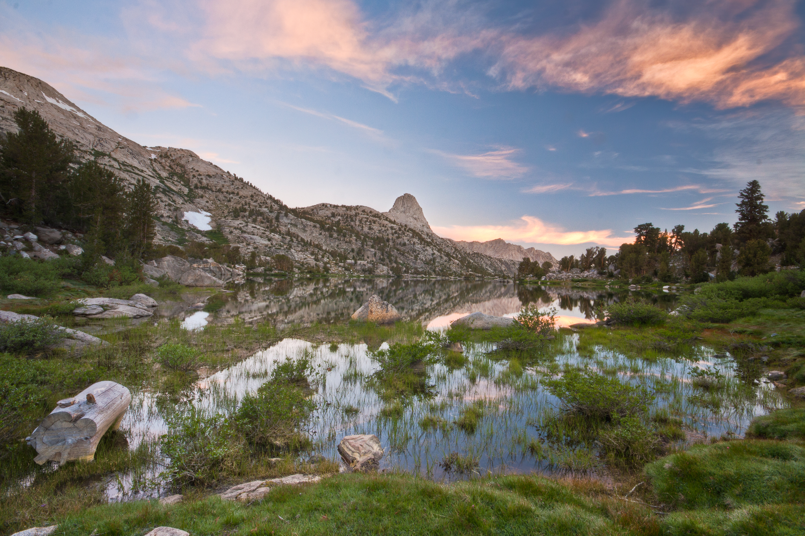 Fin Dome over Rae Lakes, Kings Canyon National Park, CA. August 2011.